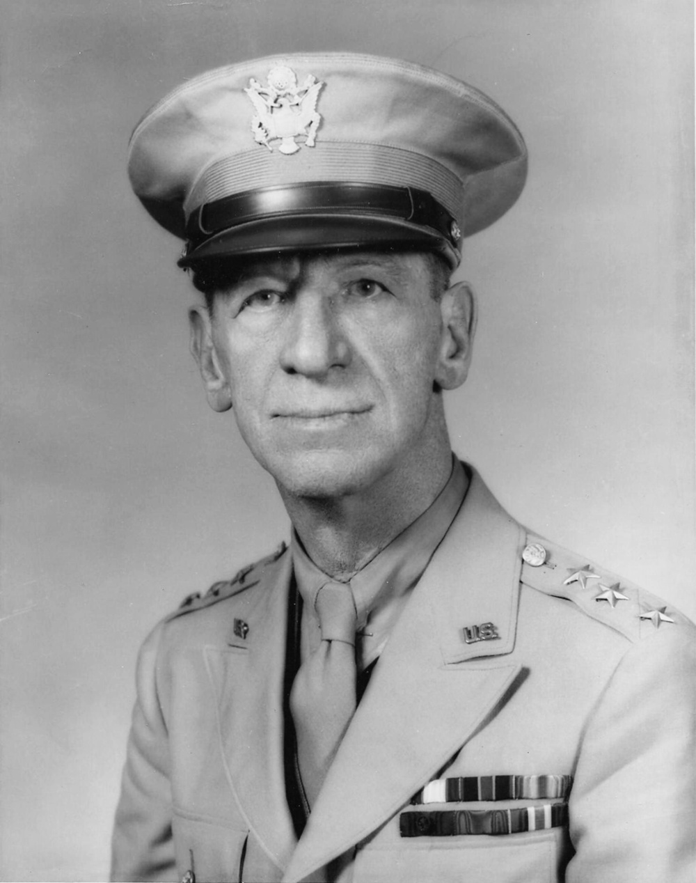 Stanley Dunbar Embick (January 22, 1877 - October 23, 1957) was a Lieutenant General in the United States Army. During World War II he served as Chief of the Joint Strategic Survey Committee.